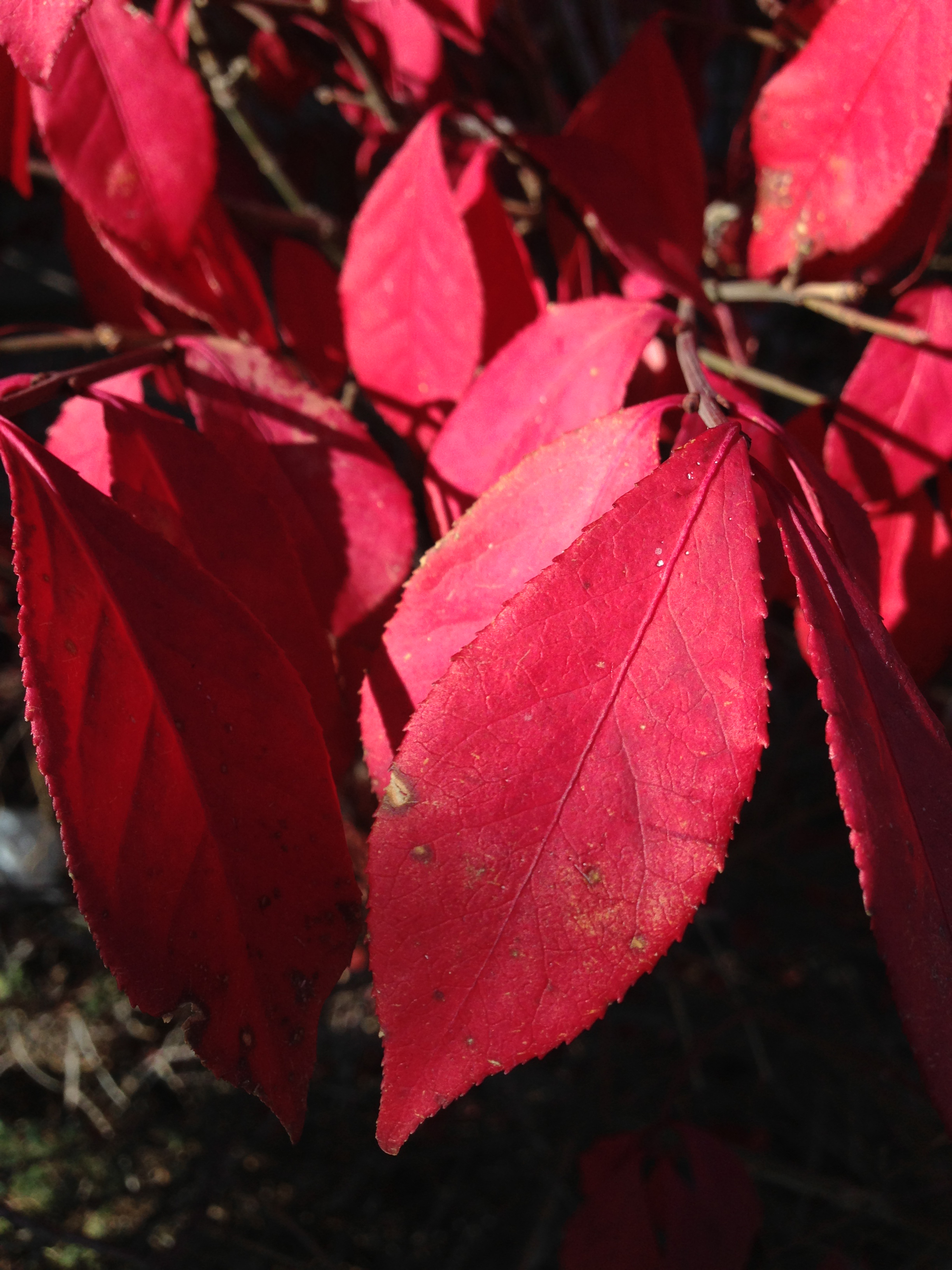 Euonymus alatus foliage during autumn along Idaho Street in Elko, Nevada